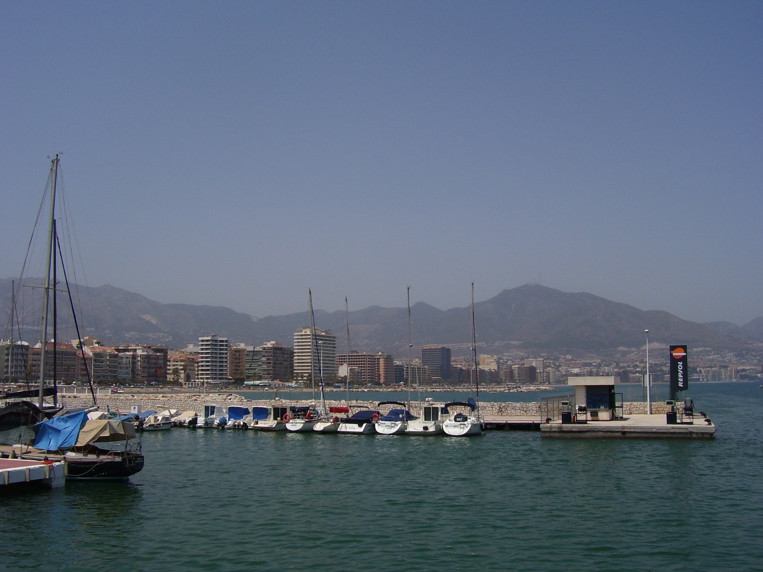 View of Fuengirola harbour. Fuengirola is a large town and municipality in Andalusia, Spain